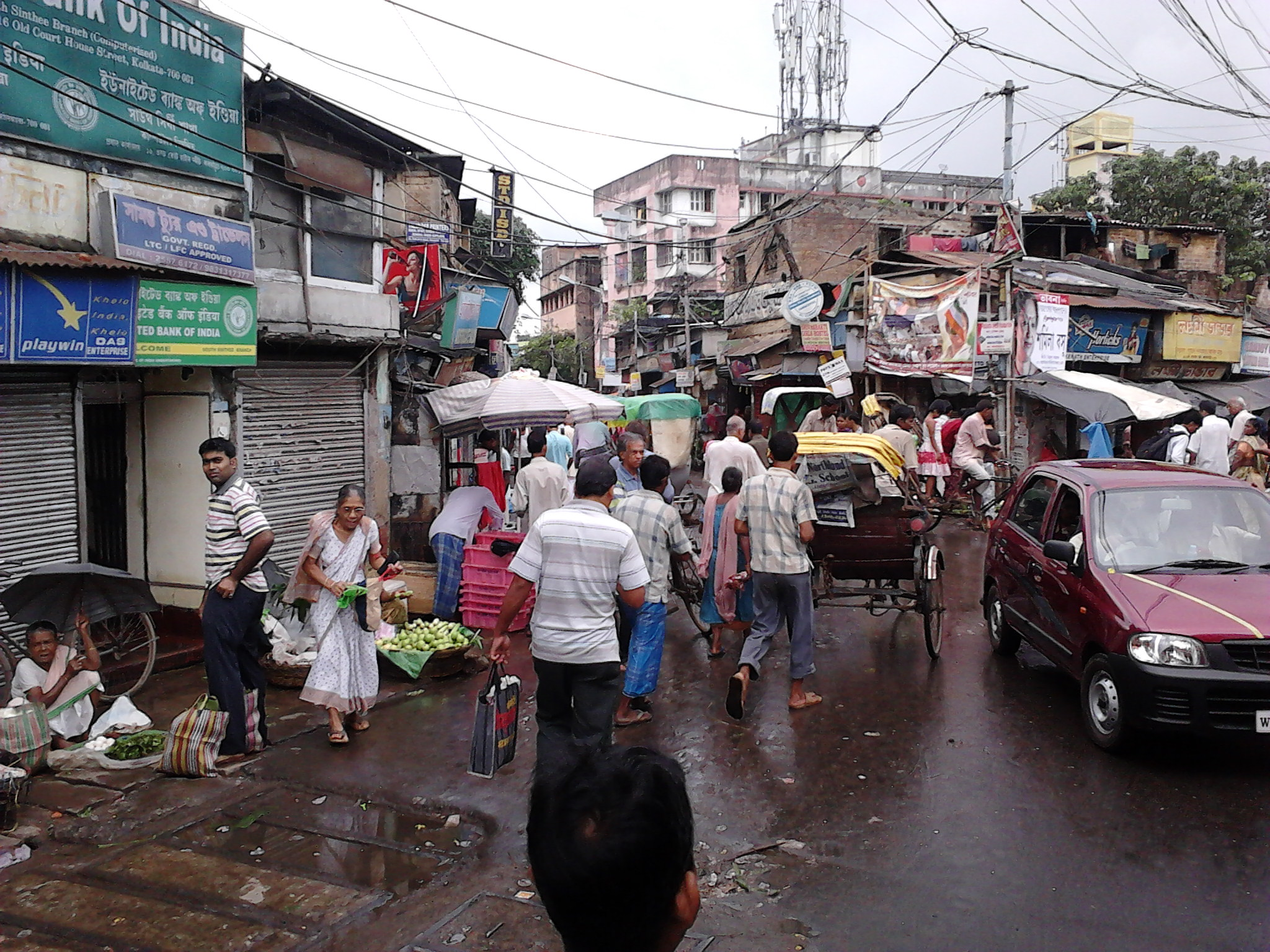 Kolkata. This media file is uploaded with India loves Wikipedia event.